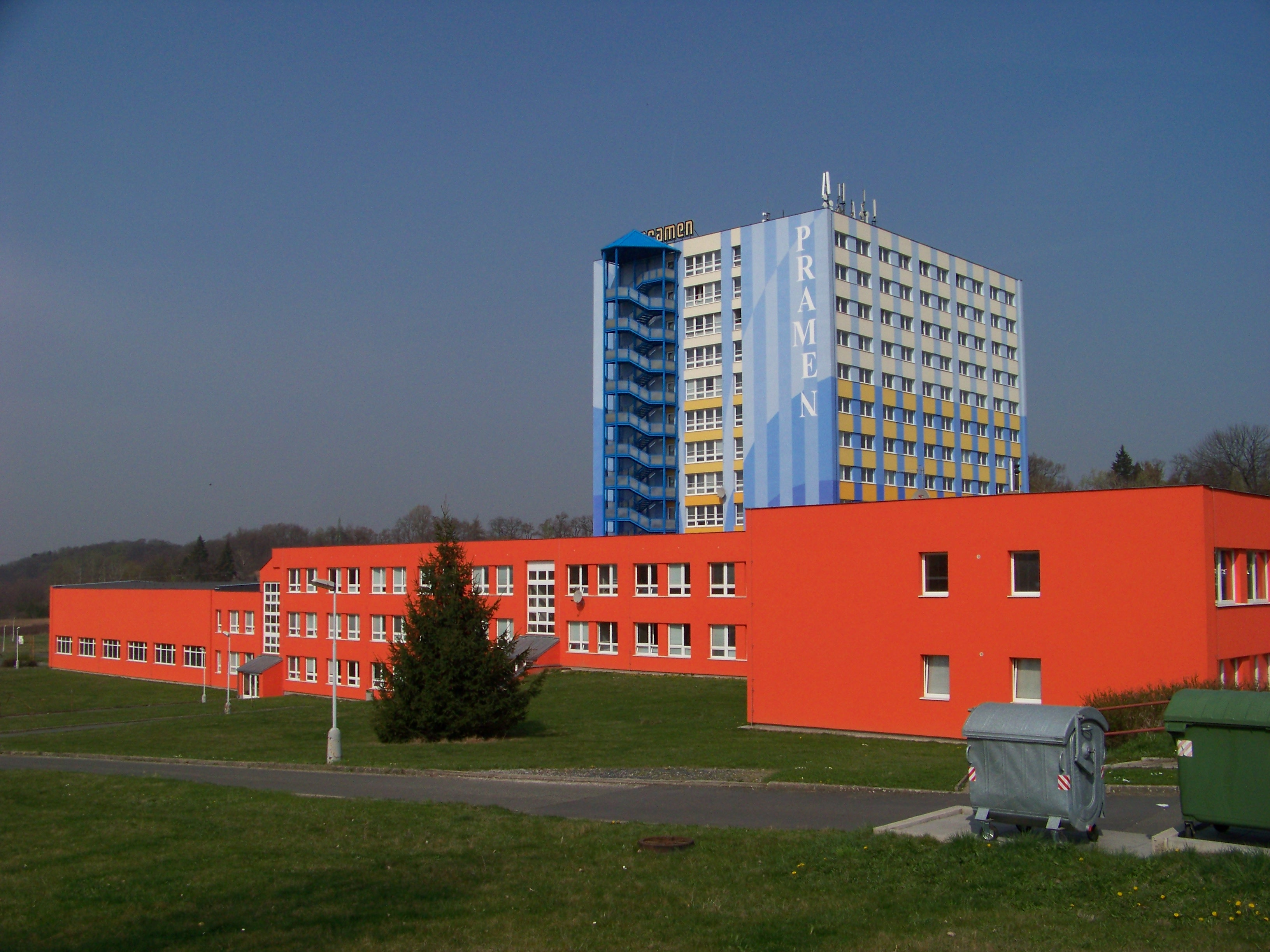 Prague-Hloubětín. Za černým mostem 362/3, a school.